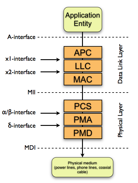 Diagram specifically created by the author for use in Wikipedia.